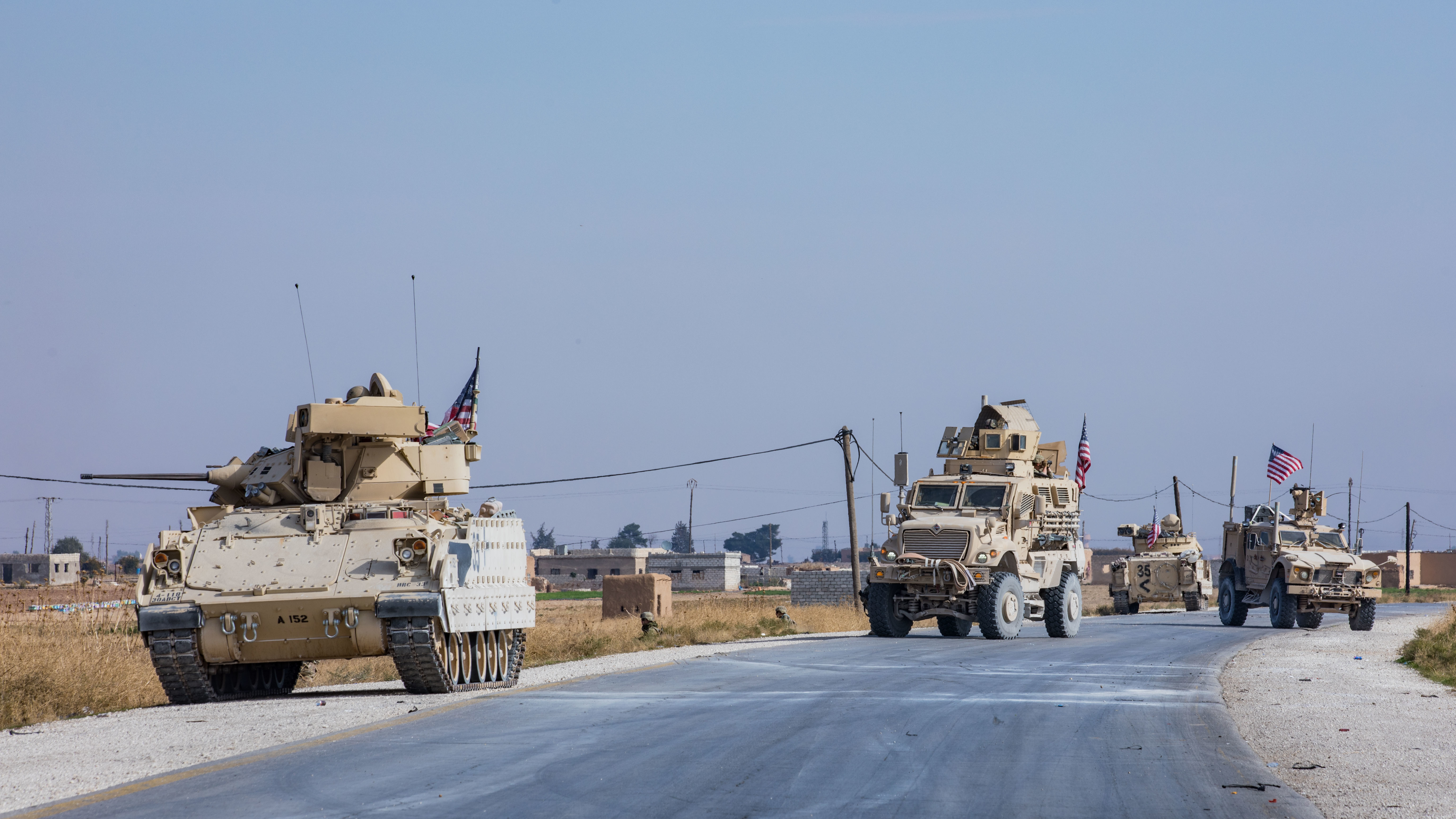 U.S. Soldiers in the 4th Battalion, 118th Infantry Regiment, 30th Armored Brigade Combat Team, North Carolina Army National Guard, attached to the 218th Maneuver Enhancement Brigade, South Carolina Army National Guard, provide M2A2 Bradley Fighting Vehicle capabilities for Combined Joint Task Force- Operation Inherent Resolve (CJTF-OIR) eastern Syria Nov. 13, 2019. These mechanized infantry troops partner with Syrian Democratic Forces to defeat ISIS remnants and protect critical infrastructure in eastern Syria.